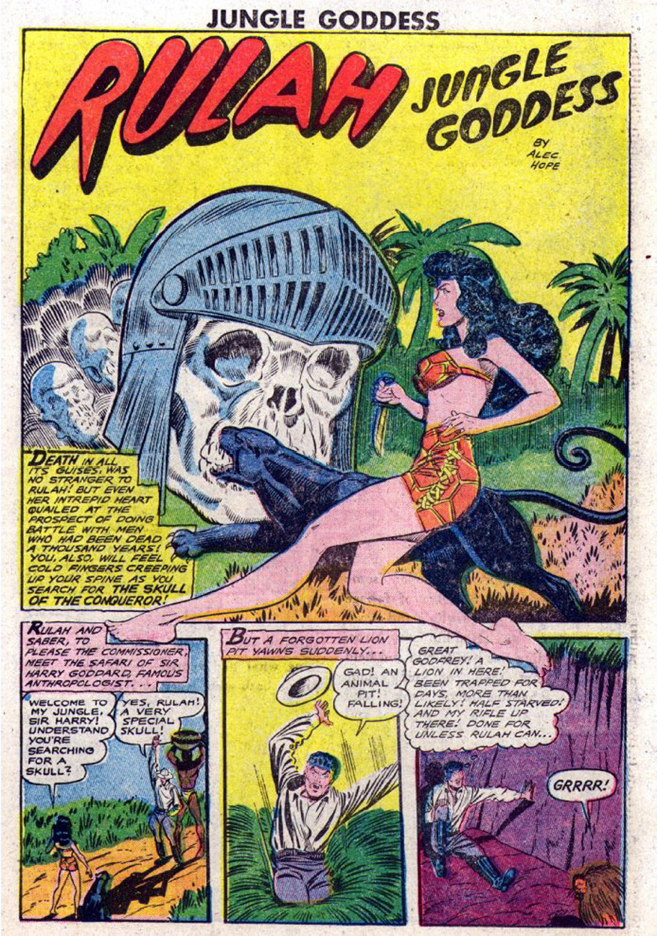 Rulah #23, page 23 February 1949